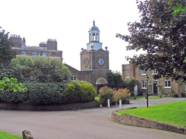 Houses at Wormleybury